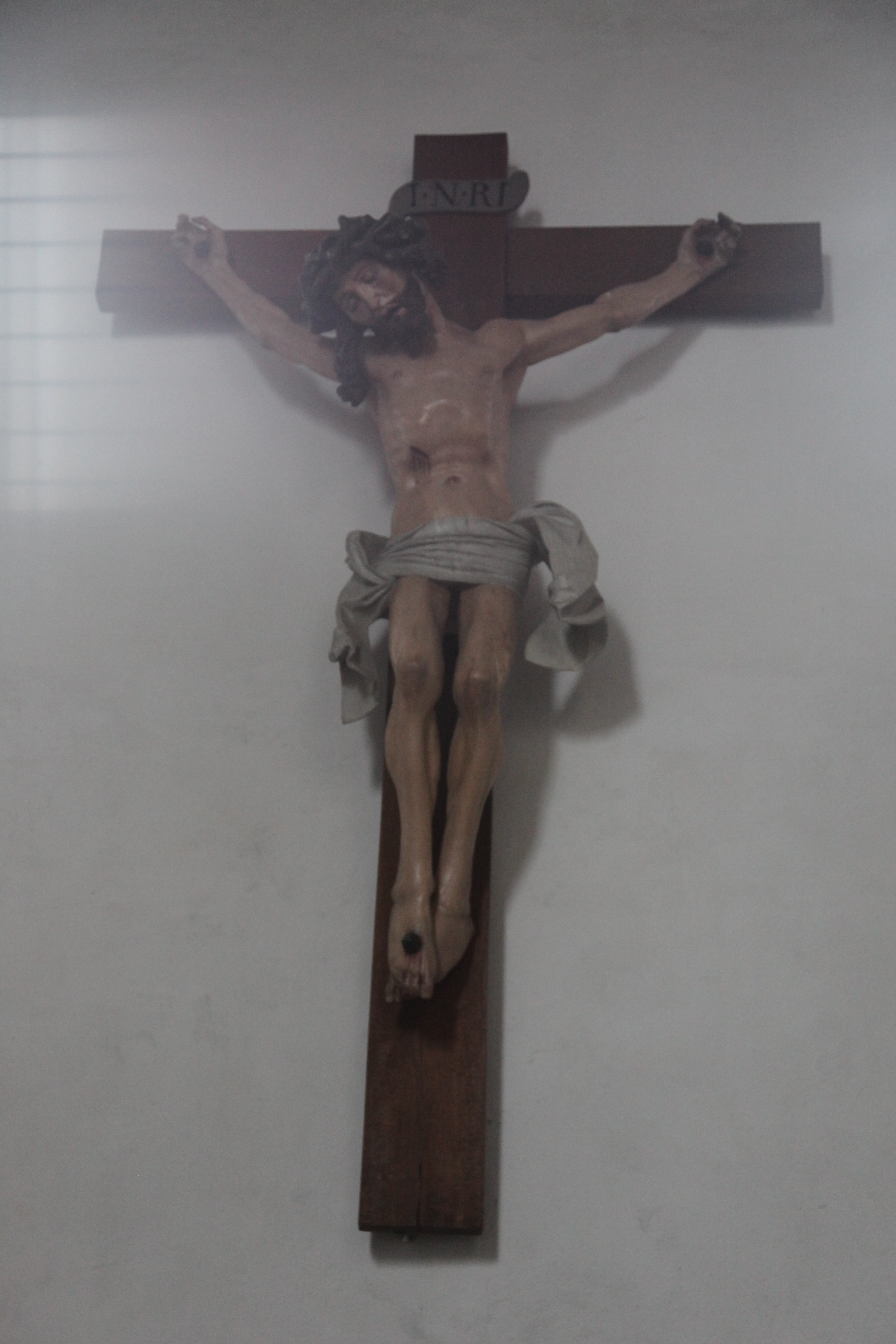 Crusifix in Fjenneslev Church. Carved by Claus Berg from Odense.